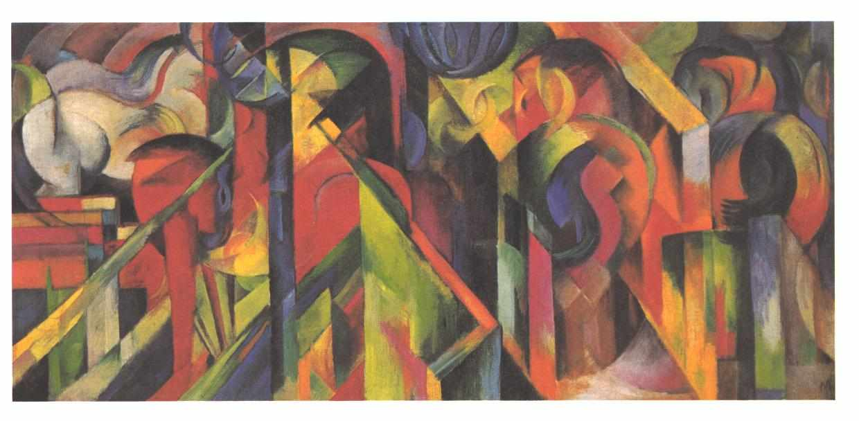 Mews